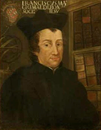 Portrait of Francesco Maria Grimaldi